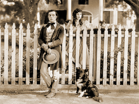 Promotional photograph of Buster Keaton and Natalie Talmadge for the film Our Hospitality (1923).